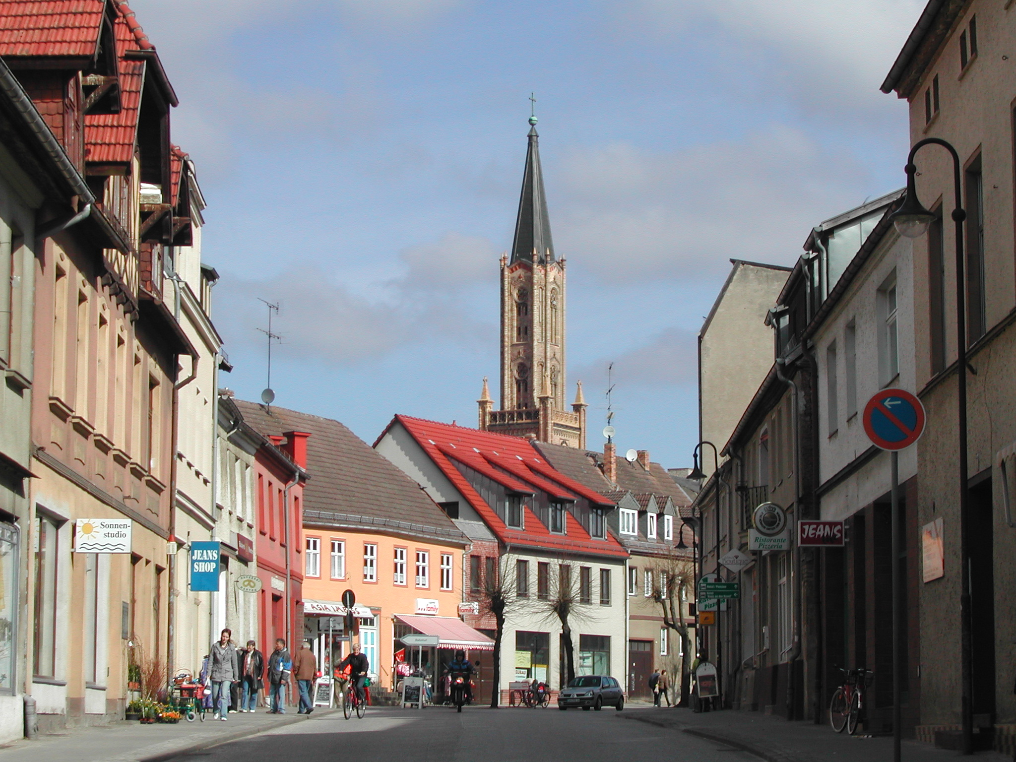 This picture shows the steeple in Fürstenberg/Havel, Germany. The street in front is called Brandenburger Straße.